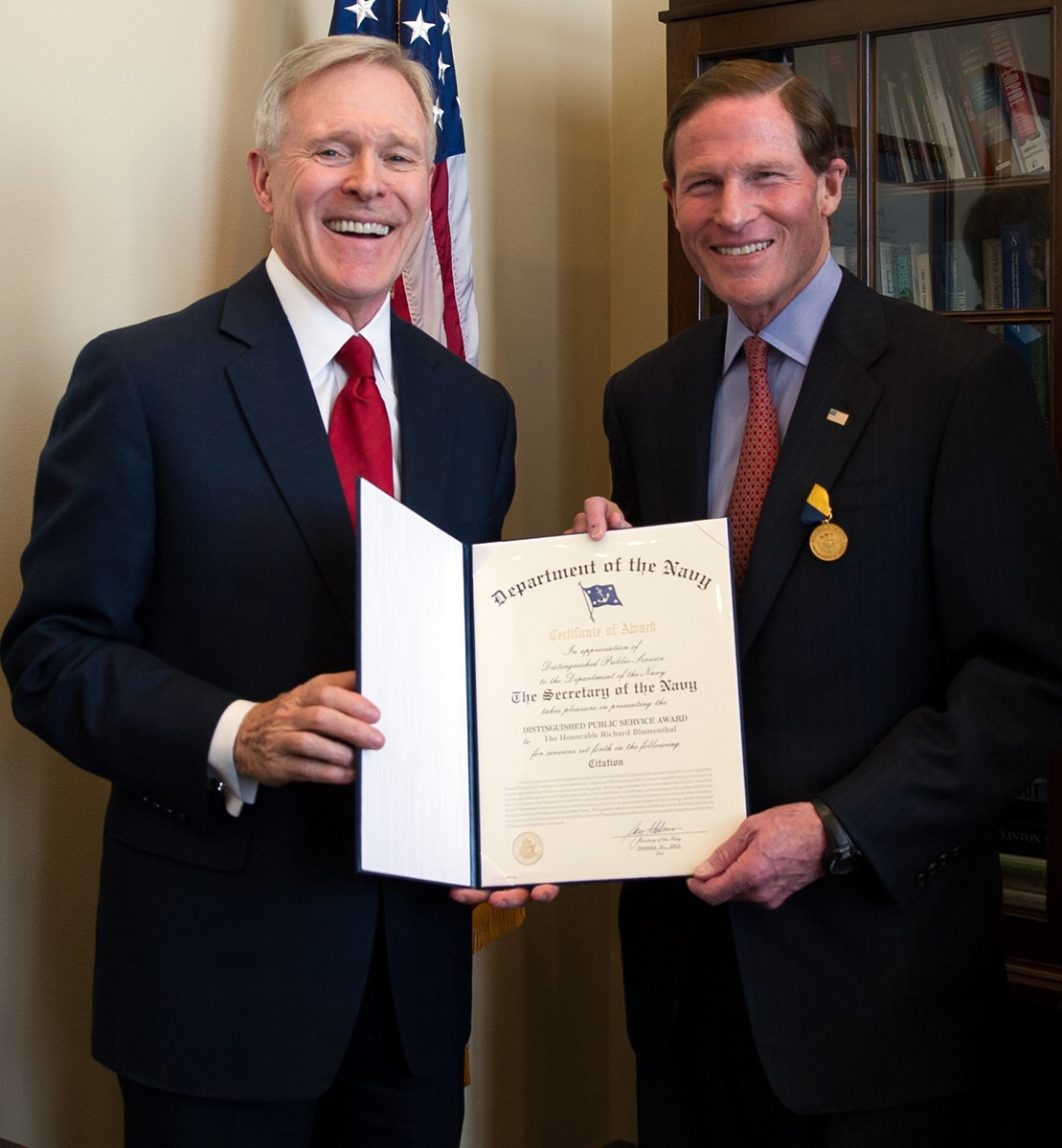 130305-N-AC887-101 WASHINGTON (March 5, 2012) Secretary of the Navy (SECNAV) Ray Mabus presents the Navy Distinguished Public Service Medal, the Department of the Navy's highest award for civilians, to U.S. Senator Richard Blumenthal at the Hart Senate Office Building. Mabus presented Blumenthal with the award for his exemplary service and support of the Navy and Marine Corps while in the Senate. (U.S. Navy photo by Chief Mass Communication Specialist Sam Shavers/Released)